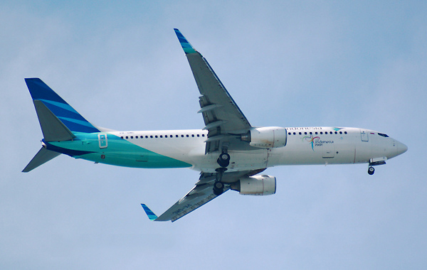 Garuda Indonesia Boeing 737-8U3(WL), PK-GMC, is approaching Ngurah Rai International Airport, Denpasar, Bali. This photo was taken from Serangan Island, Bali. The aircraft sports a new livery, part of the airline's "Quantum Leap" strategy.